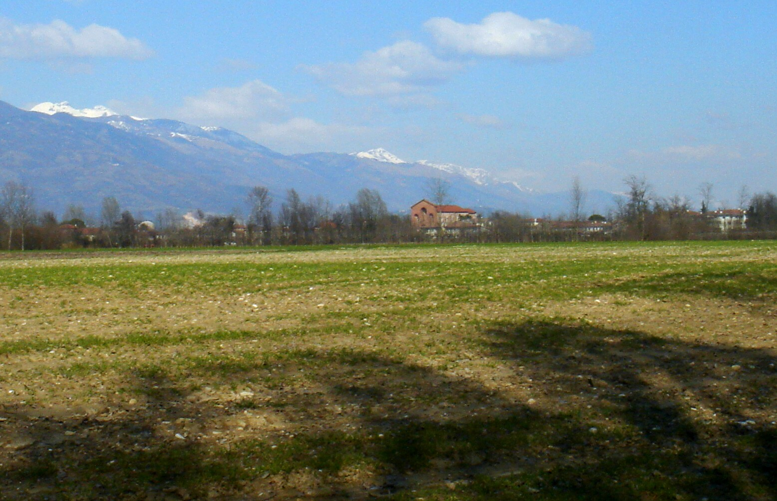 Pianzano (Godega di Sant'Urbano, Treviso, Italy). Church from palù of San Fior di Sotto.